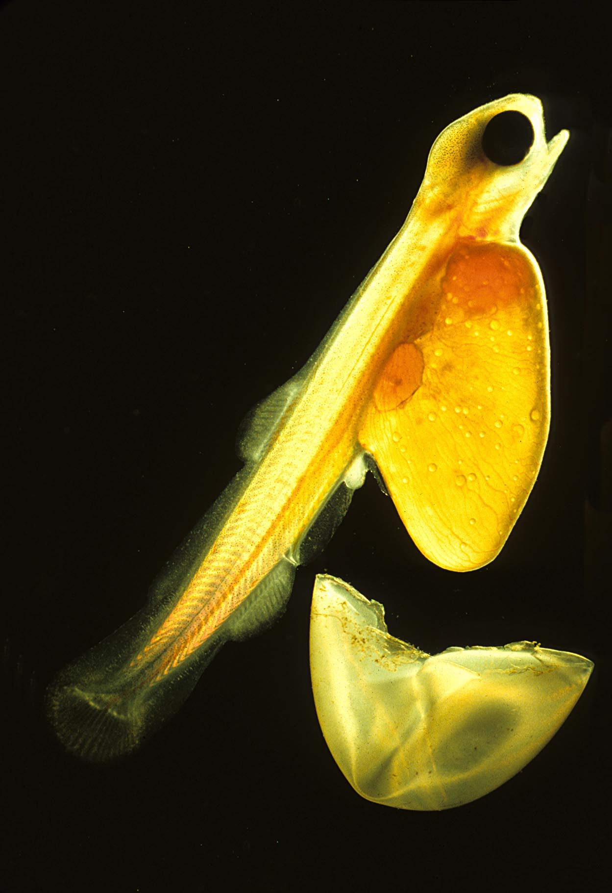 Salmon egg hatching (Salmo salar) - the Alevin (larva) has grown around the remains of the yolk sac - visible are the arteries spinning around the yolk and little oildrops, also the gut, the spine, the main caudal blood vessel, the bladder and the arcs of the gills. In about 24hrs it will be a fry without yolk sac.